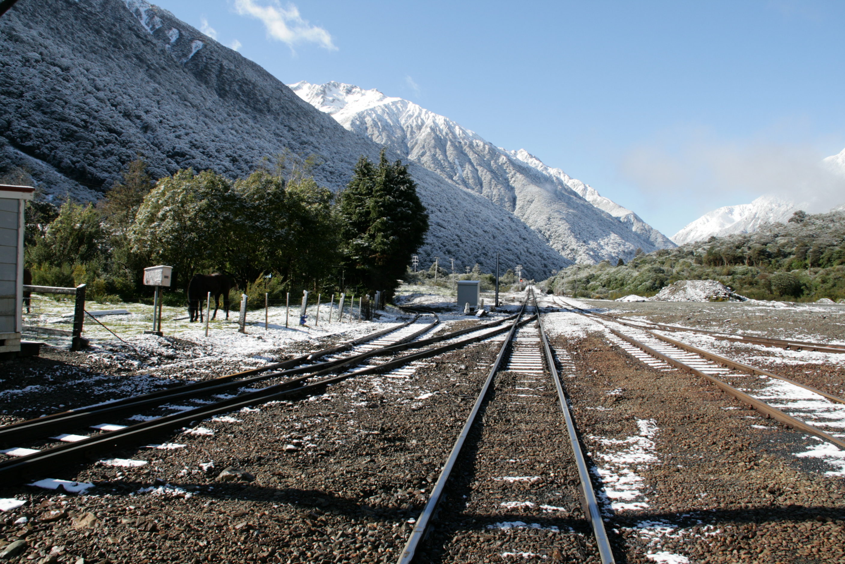 View from 'The office'